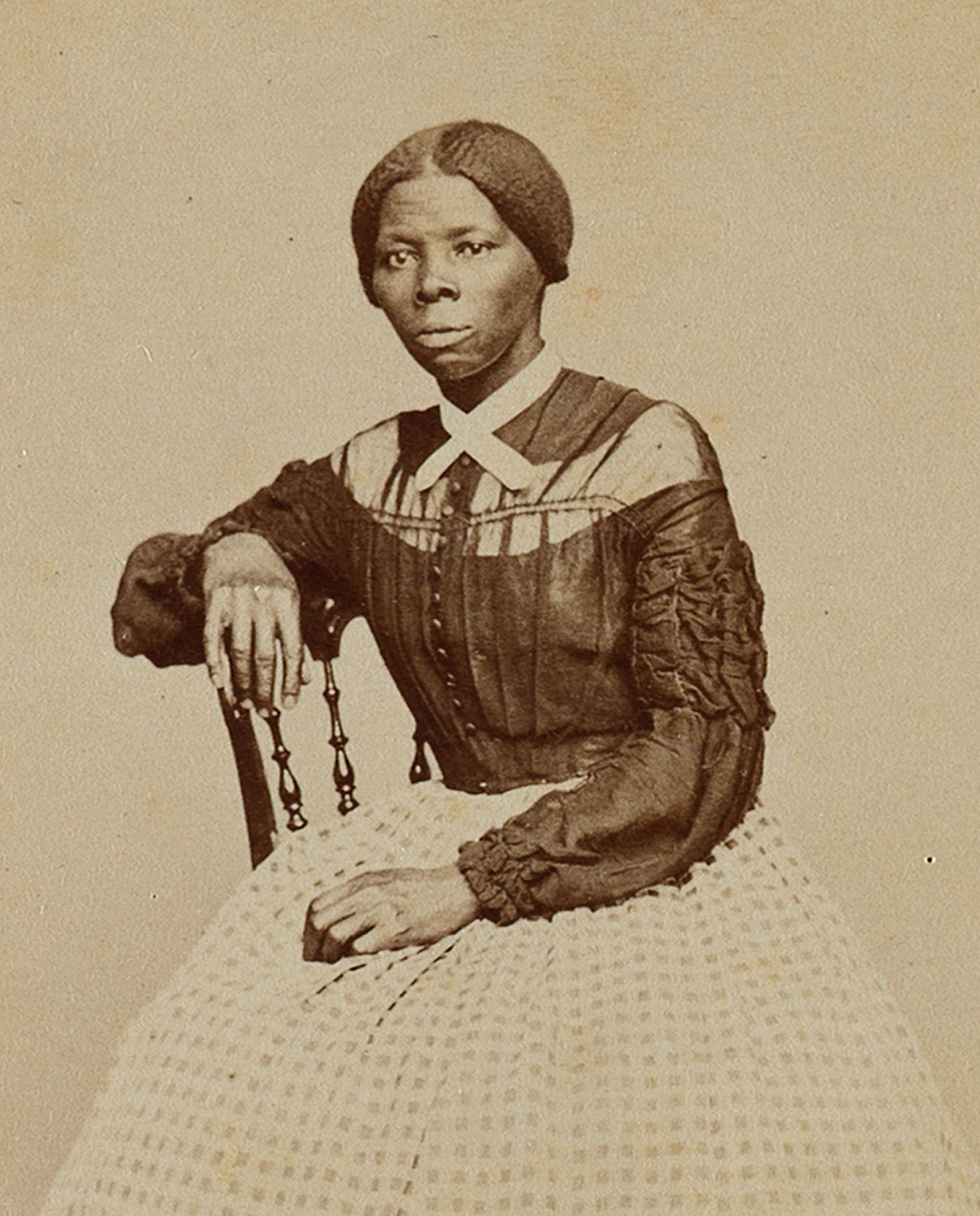 Carte-de-visite showing a considerably younger Harriet than normally seen in the known images of her, just coming off her work during the Civil War